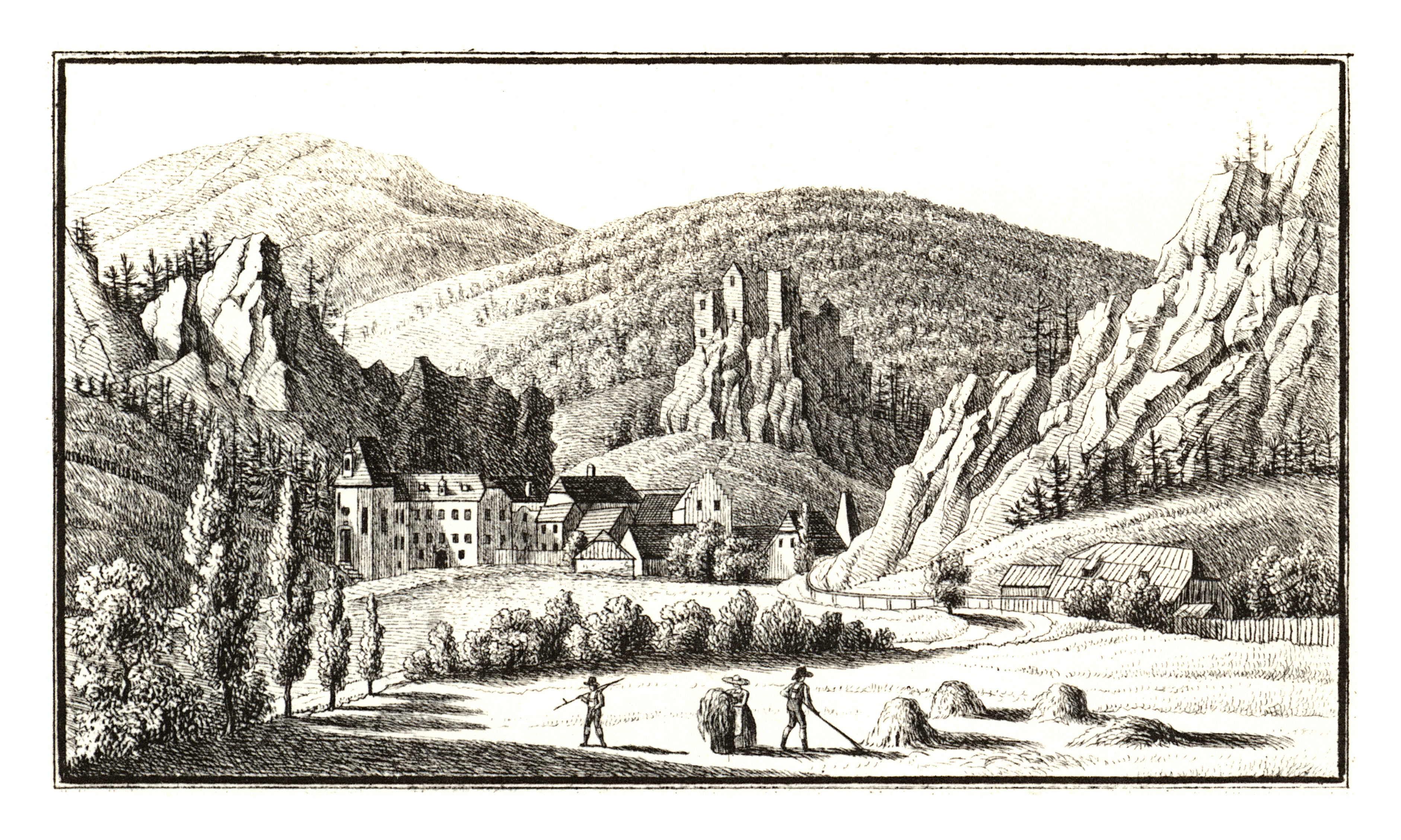 J. F. Kaiser - lithographirte Ansichten der Steyermärkischen Städte, Märkte und Schlösser, Graz 1824-1833 Joseph Franz Kaiser (1786–1859) Alternative names J. F. KaiserDescriptionAustrian printer and editorDate of birth/death 11 March 1786 19 September 1859Location of birth/death Graz (Styria) GrazAuthority control : Q1499963 VIAF: 30629353 ISNI: 0000 0000 3083 0153 LCCN: n87141671 GND: 129880159 NLP: A24960305 WorldCat creator QS:P170,Q1499963 . Scanprojekt Community Projektbudget 2012 This scan or this PDF-file was created within the GLAM-project Bookscanning, supported by Wikimedia Germany and Wikimedia Austria as a part of the community-project to capture books, documents and pictures which are not eligible to copyright or for which the copyright has expired. This document describes or depicts an object which is located in Austria today. Send requests for uncompressed scans to Hubertl. This work is in the public domain in its country of origin and other countries and areas where the copyright term is the author's life plus 100 years or fewer. You must also include a United States public domain tag to indicate why this work is in the public domain in the United States. This file has been identified as being free of known restrictions under copyright law, including all related and neighboring rights.